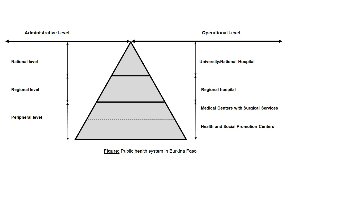 My own work describing the health system in Burkina faso